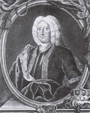 Portrait of Christian Ernest II, Duke of Saxe-Coburg-Saalfeld (1683-1745)